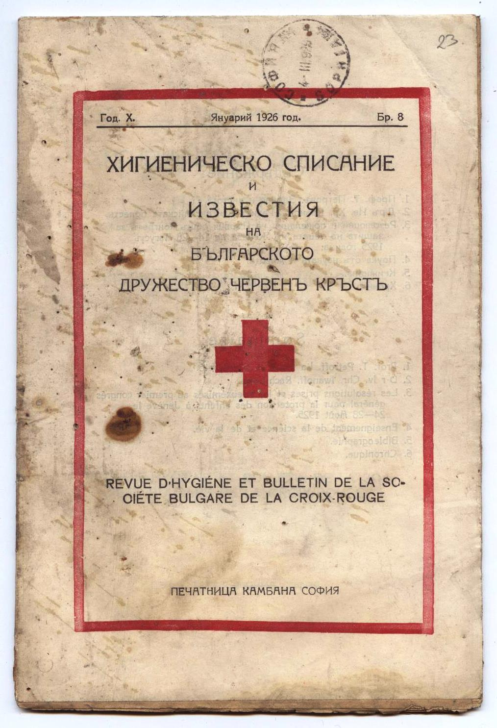 The cover of the "Hygiencic magazine", edition of the Bulgarian Red Cross, year 10, vol. 8, January 1926